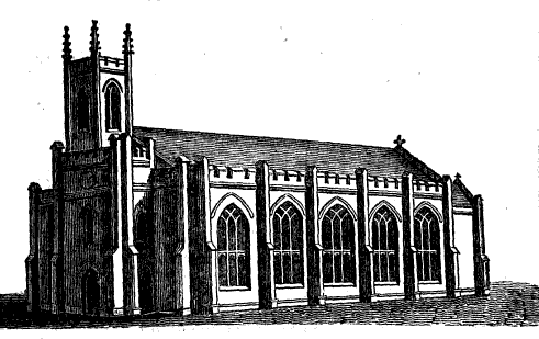 Christ Church, Bradford, England: a church newly built in 1815.